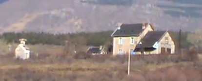 Estació d'Estavar del Tren Groc, des de la carretera